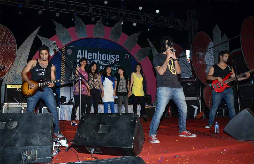 Event Pic